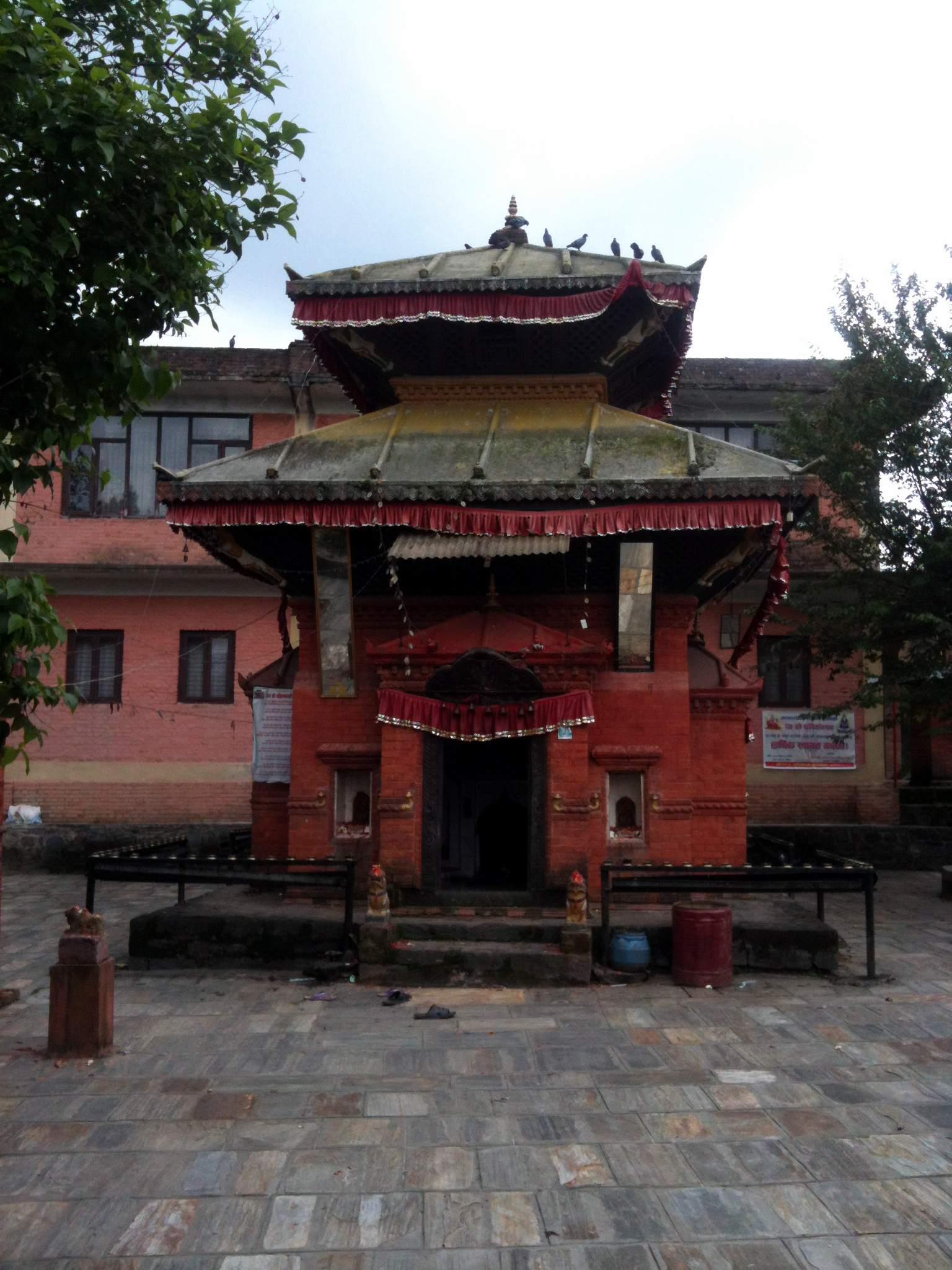 Jalpadevi Temple at Nagarkot, Nepal